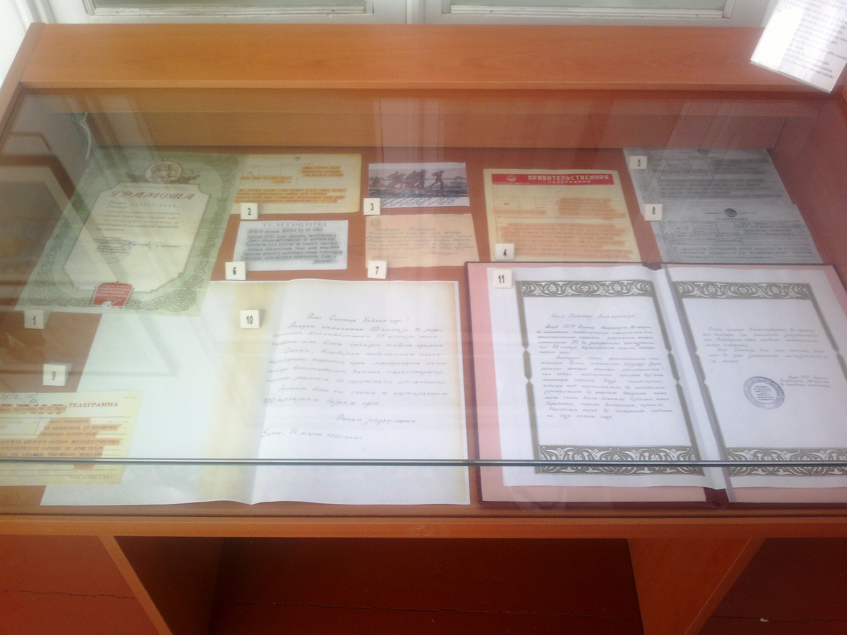 House-museum of Sattar Bahlulzadeh